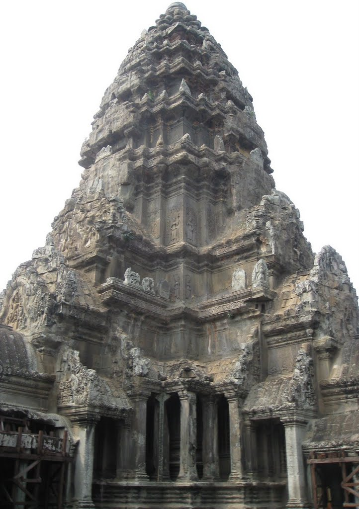 Middle tower of Angkor Wat temple is located on upper most level of the main buliding.